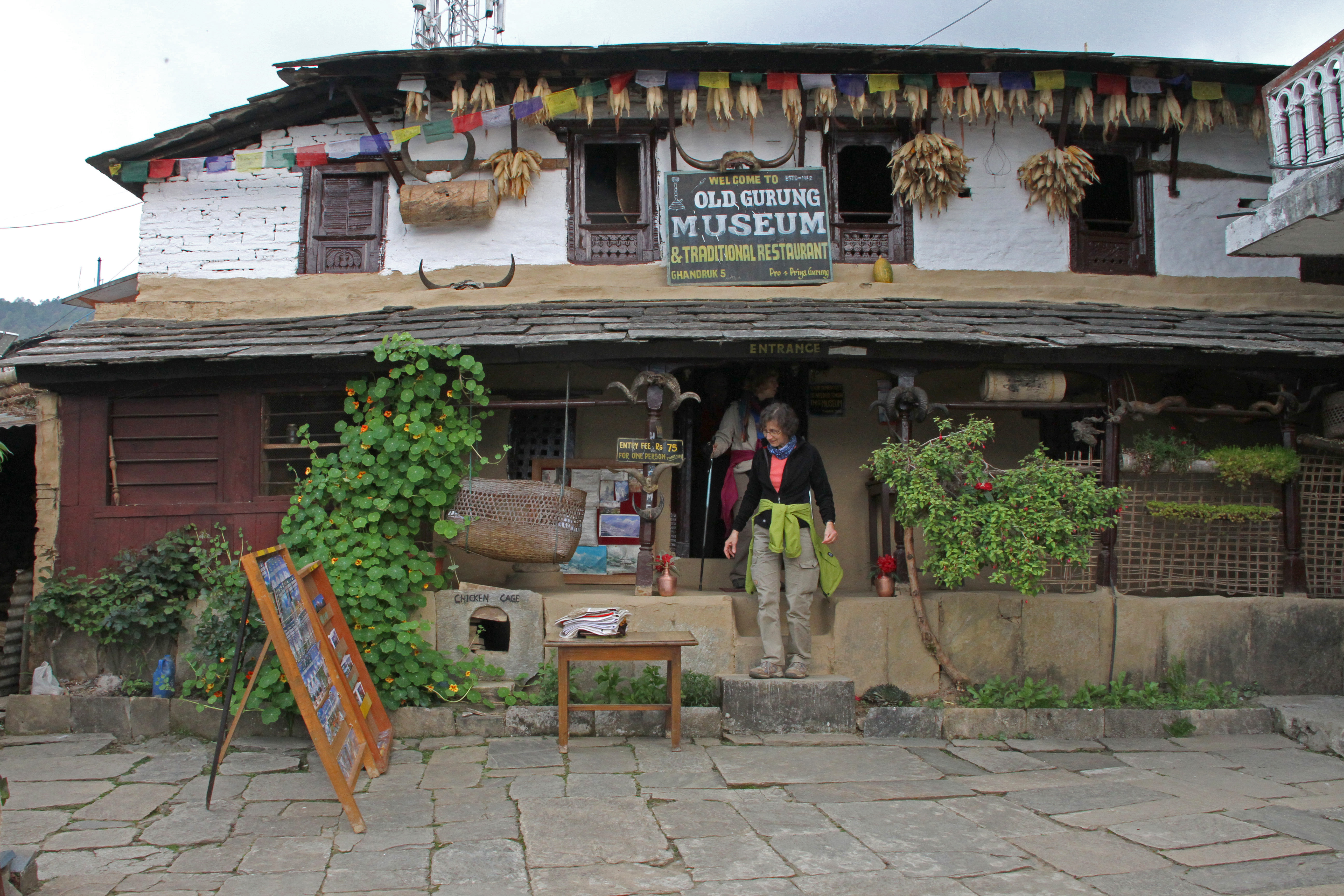 Village of Ghandruk in Nepal